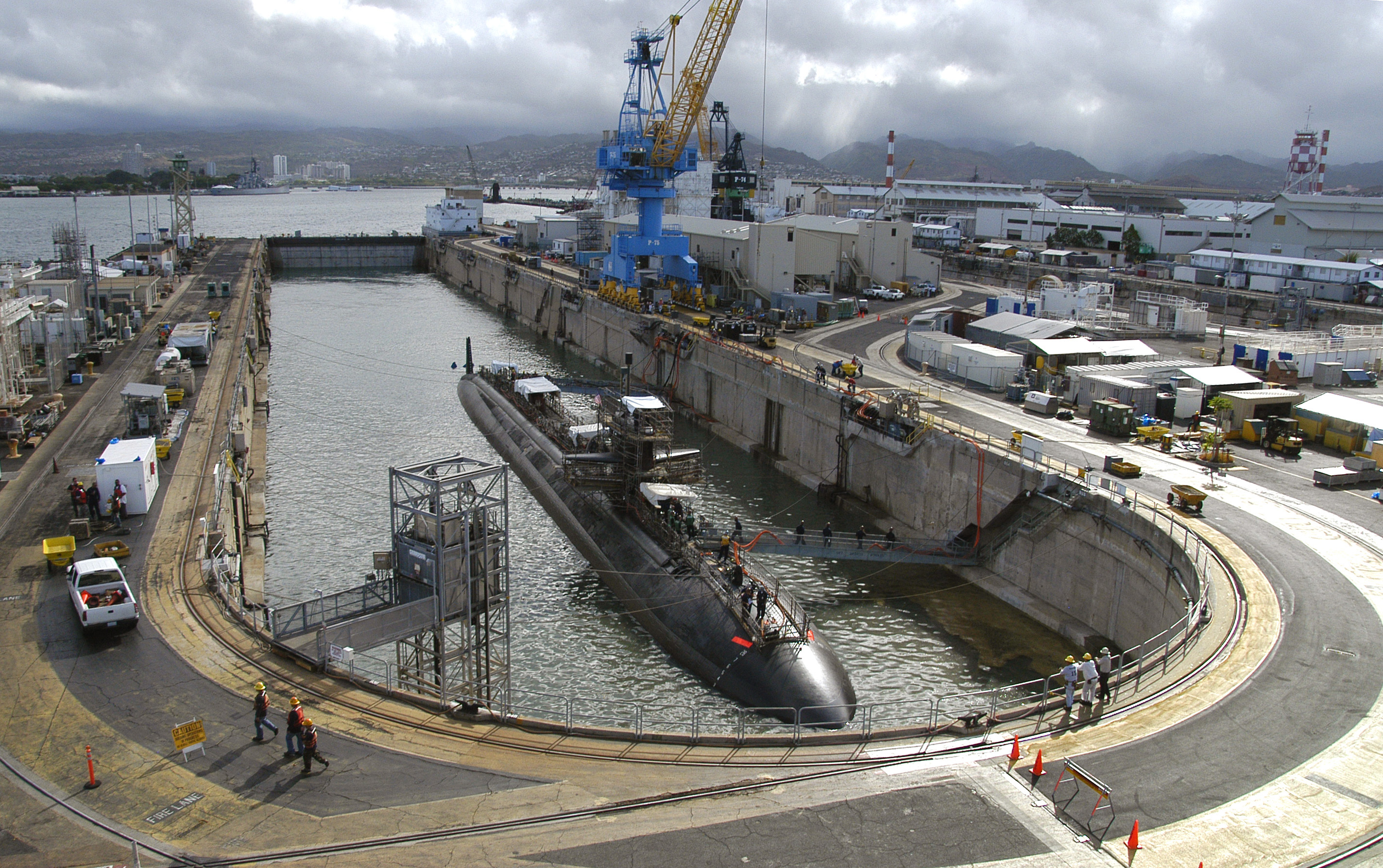 PEARL HARBOR (June 18, 2009) The Los Angeles-class attack submarine USS Buffalo (SSN 715) undocks from Dry Dock 2 at Pearl Harbor Naval Shipyard. Buffalo is undergoing a five-month scheduled maintenance period. (U.S. Navy photo by Marshall Fukuki/Released)